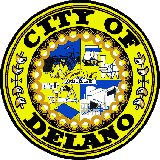 The official city seal of Delano, California.